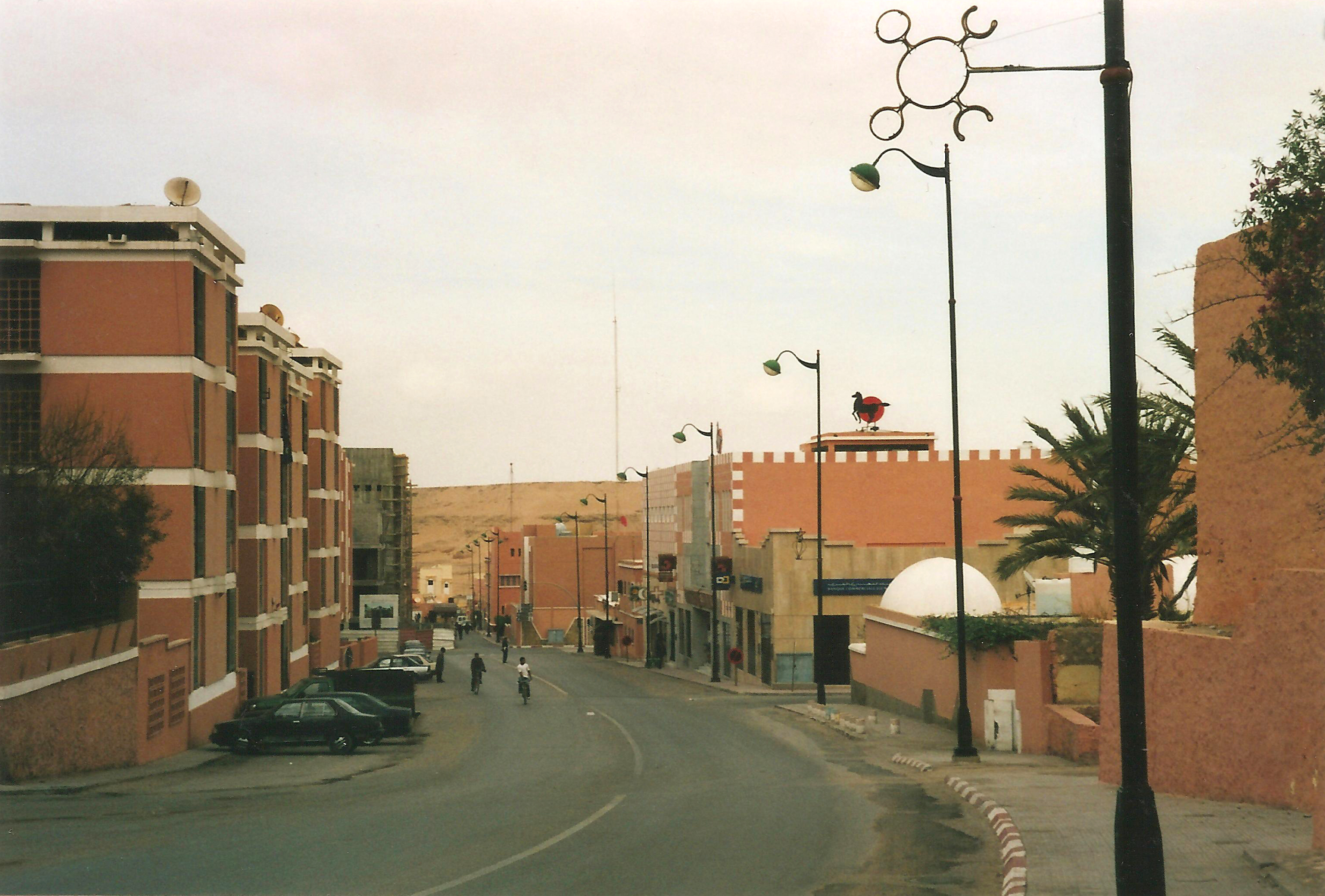 Western Sahara: downtown of Laayoune